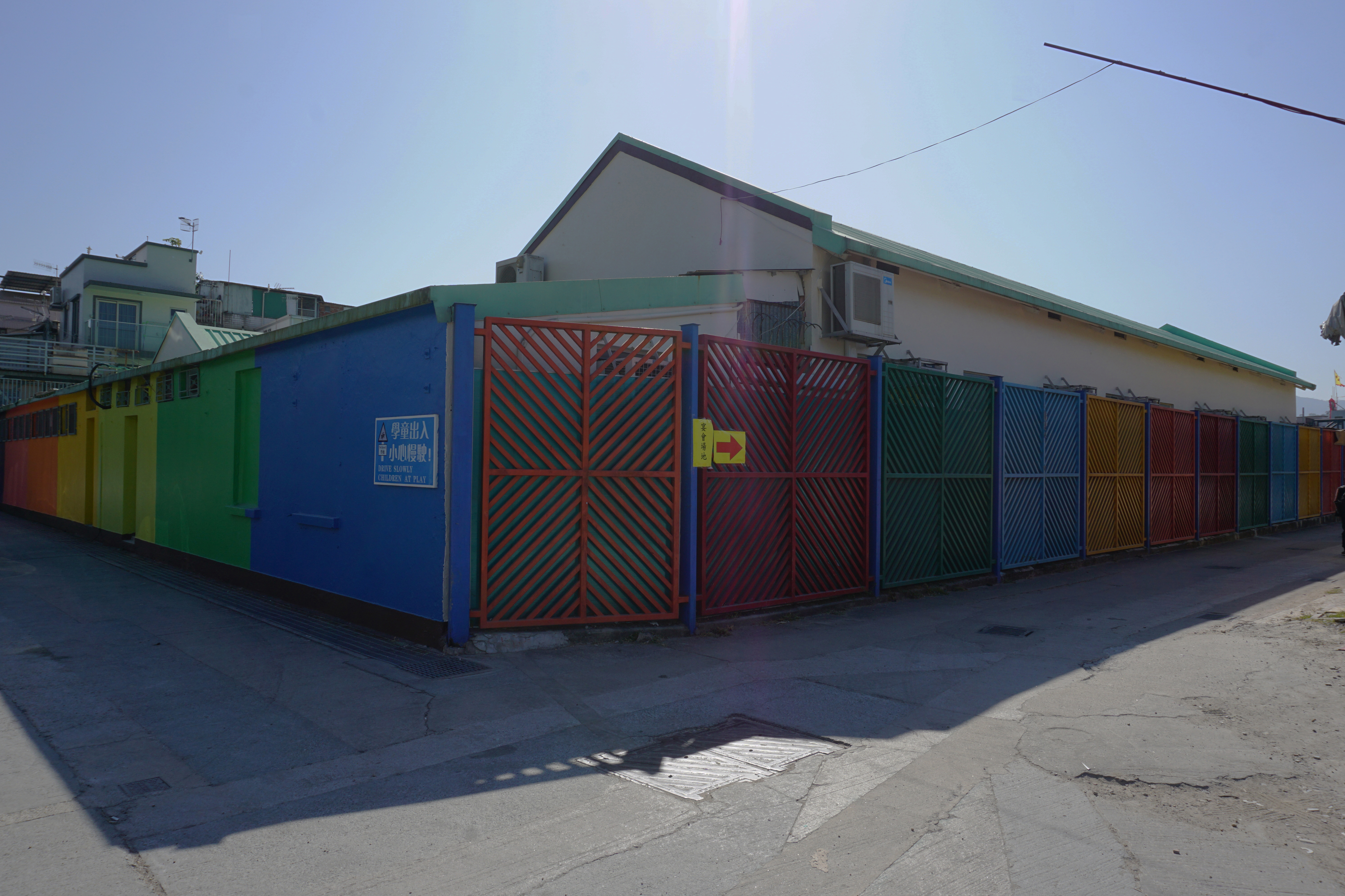 Tung Tak School in Kam Tin, Hong Kong.